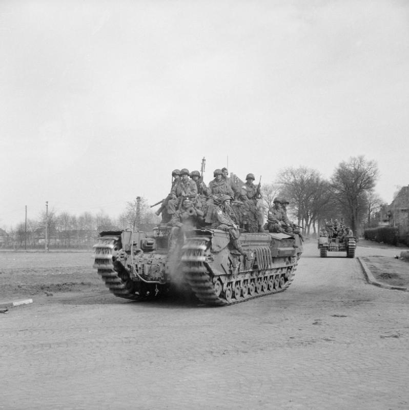 British Tanks and Afvs in Nw Europe 1944-45 Churchill tanks of 6th Guards Armoured Brigade carrying paratroopers of the 513rd Parachute Infantry Regiment, US 17th Airborne Division, through Dorsten, 29 March 1945.